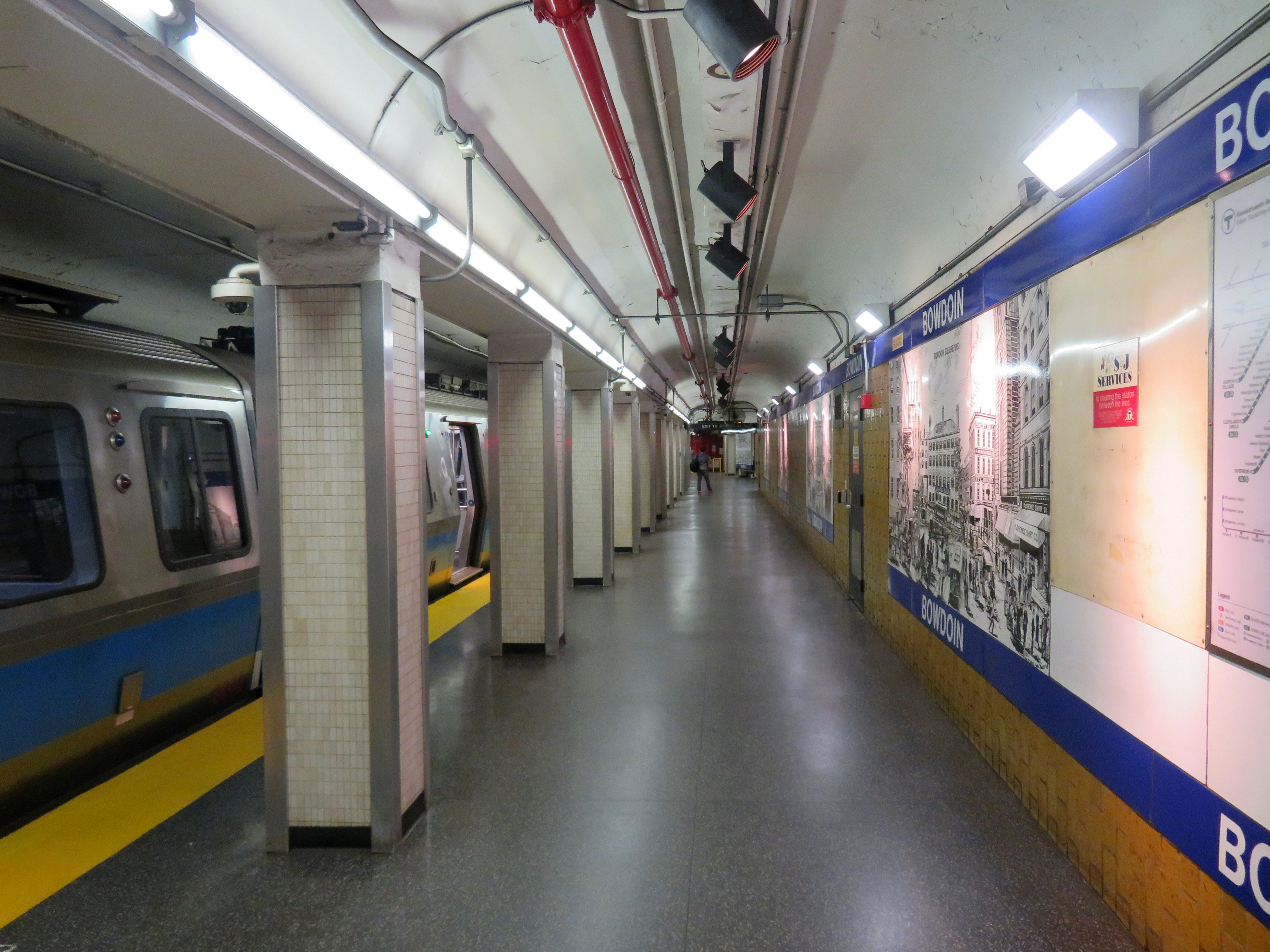 A westbound train terminating at Bowdoin station in July 2019